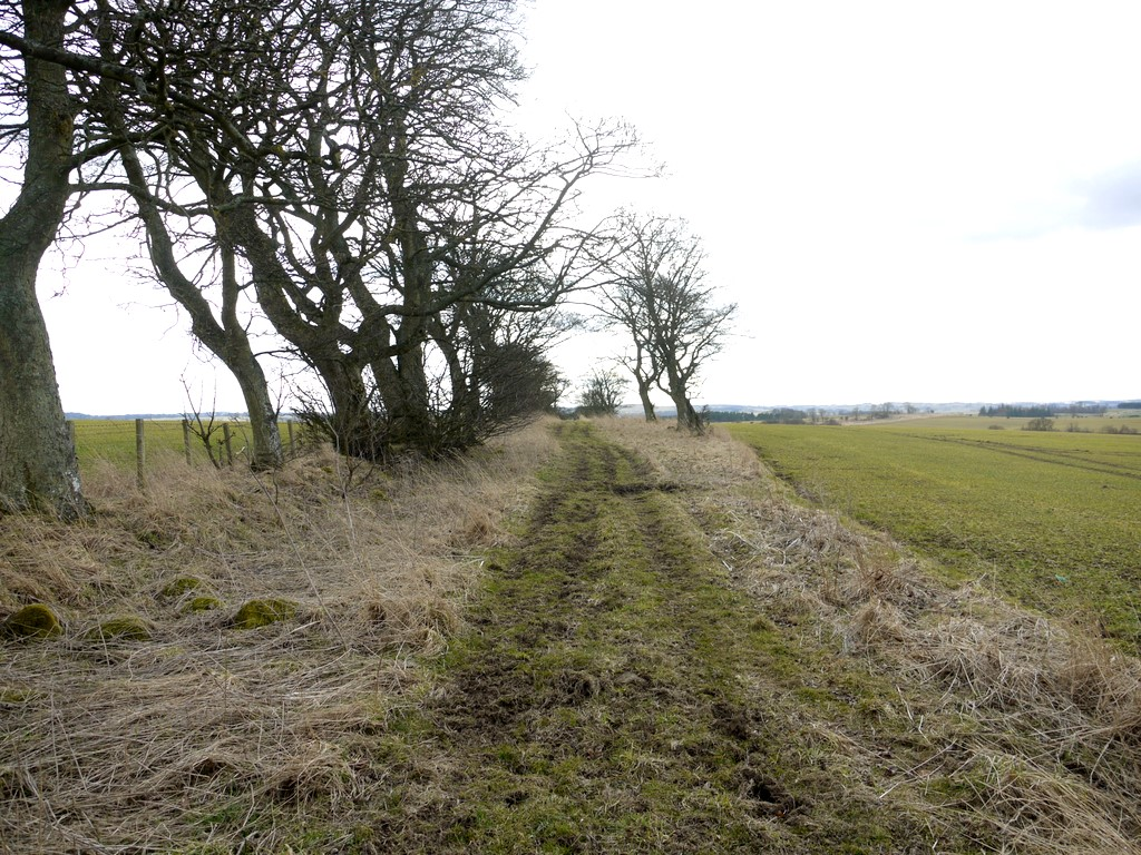 Devil's Causeway heading for Hart Burn ford